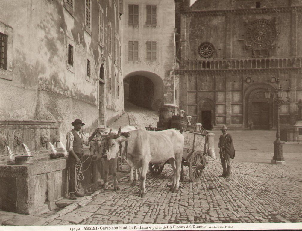 Domenico Anderson (1854-1938) - "Assisi. An ox cart with oxen, the fountain and a part of Duomo square". Catalogue # 15.432.